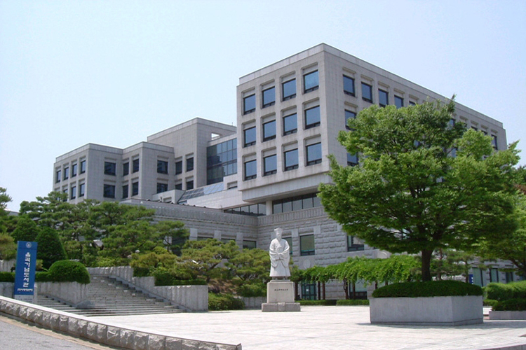 The Central Library of Yulgok Memorial(Cheonan)